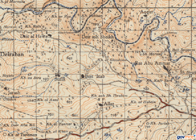 Beit itab in 1920s british map